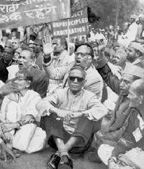 1958 SMS rally, S.S. Mirajkar in centre